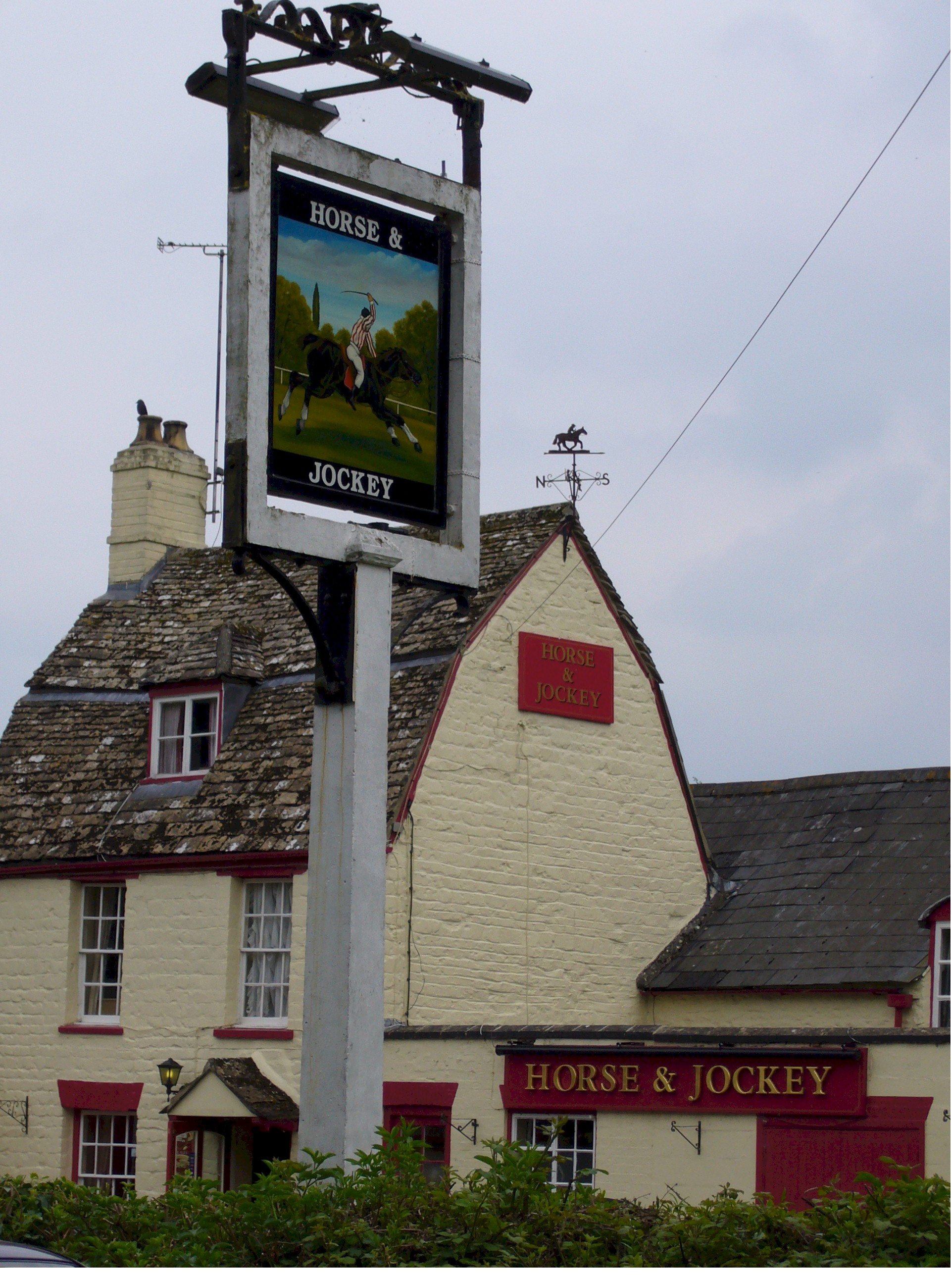 The Horse and Jockey, Ashton Keynes, Wiltshire. Photo taken by Heather Milnes